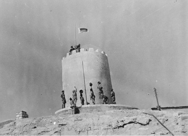 Australian soldiers from the 2/9th Infantry Battalion hoist a flag with their Unit Colour Patch over the recently captured Italian fort at Giarabub, 1941.